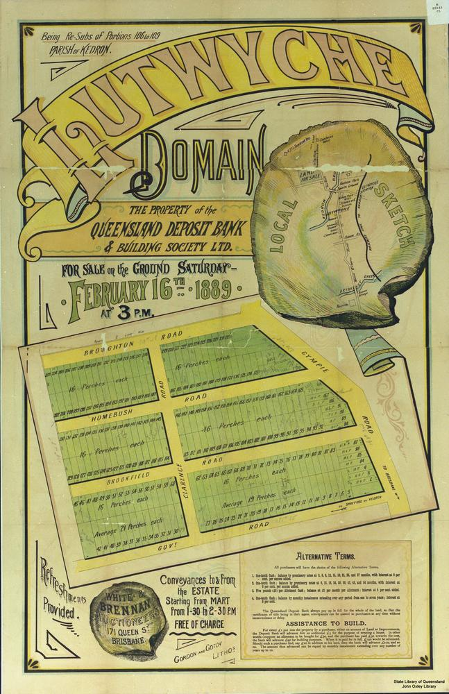 Estate map for Lutwyche Domain, Brisbane, Queensland, 1889 Lutwyche Domain Estate map for a land auction showing a plan of allotments to be sold on the 16th February, 1889 by White & Brennan, Auctioneers, 171 Queen Street, Brisbane, Queensland. The sale of land allotments covers the areas between Gympie Road, Clarence Road, Broughton Road, Homebush Road, Brookfied Road and Government Road (later known as Stafford Road), Brisbane.